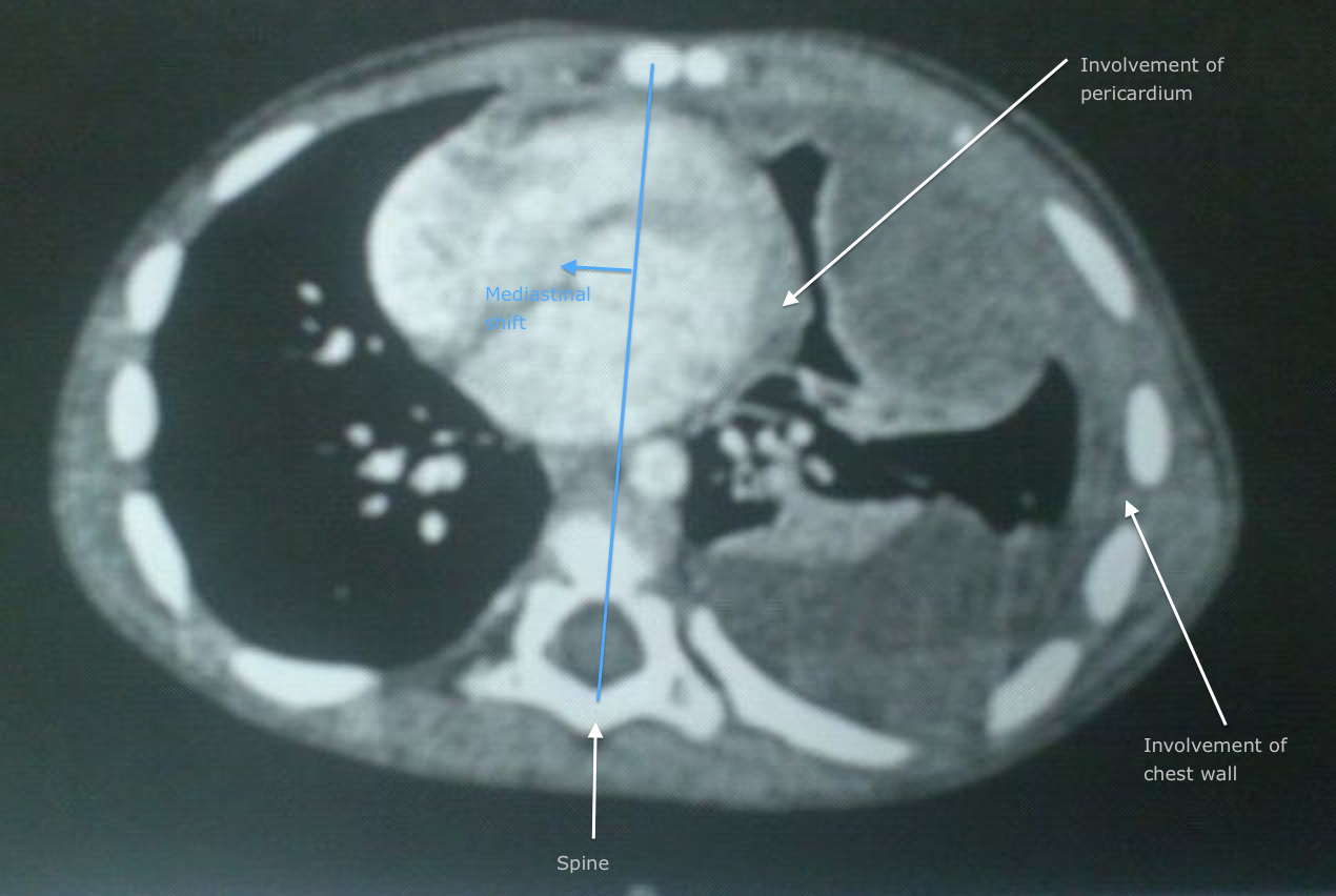 Labelled CT image of undifferentiated soft tissue sarcoma in left lung of young child, showing involvement of pericardium and chest wall, and mediastinal shift